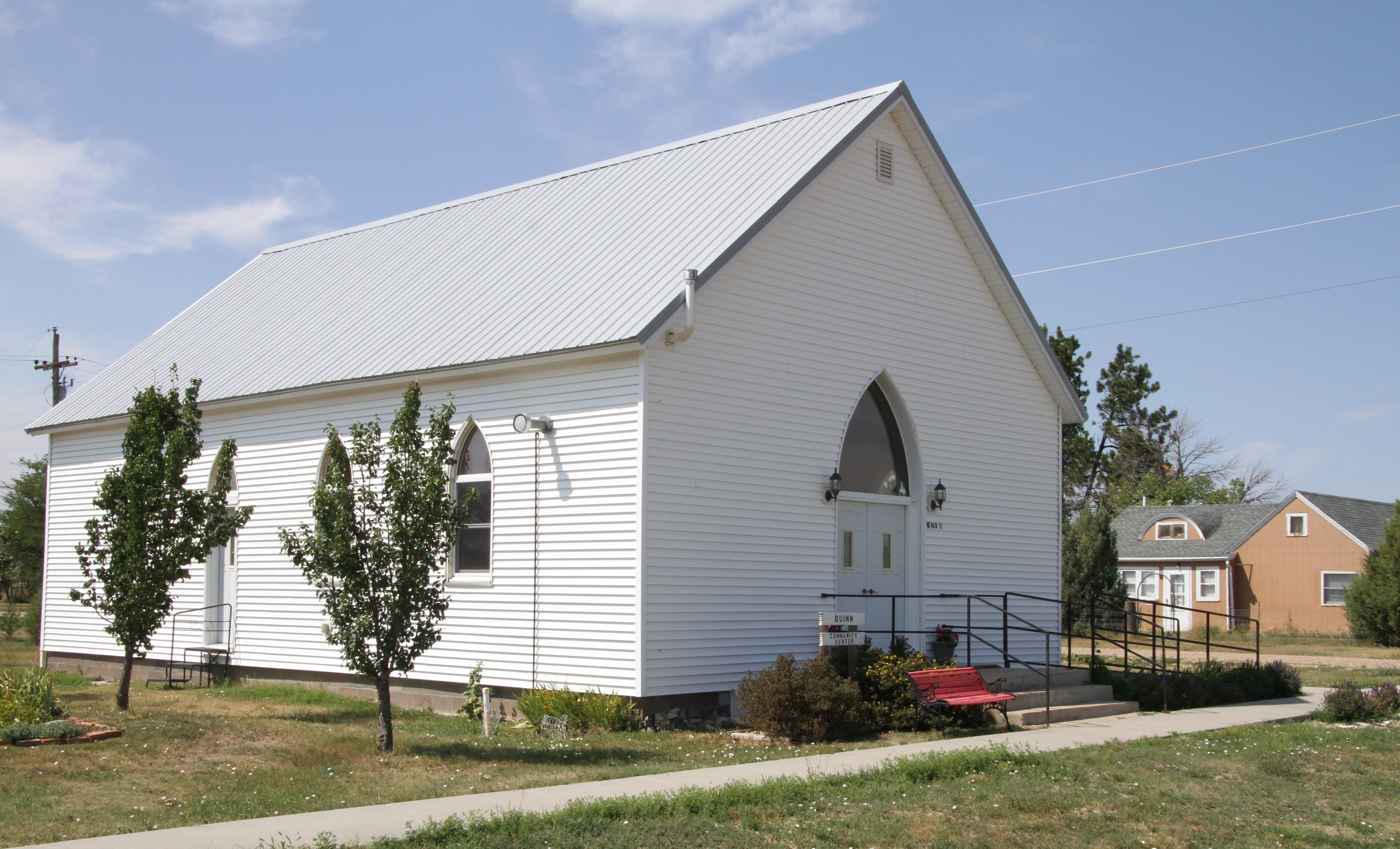 Quinn Community Center, formerly Quinn Methodist Church, at the junction of Elm and Main Streets in Quinn, Pennington County, South Dakota, United States